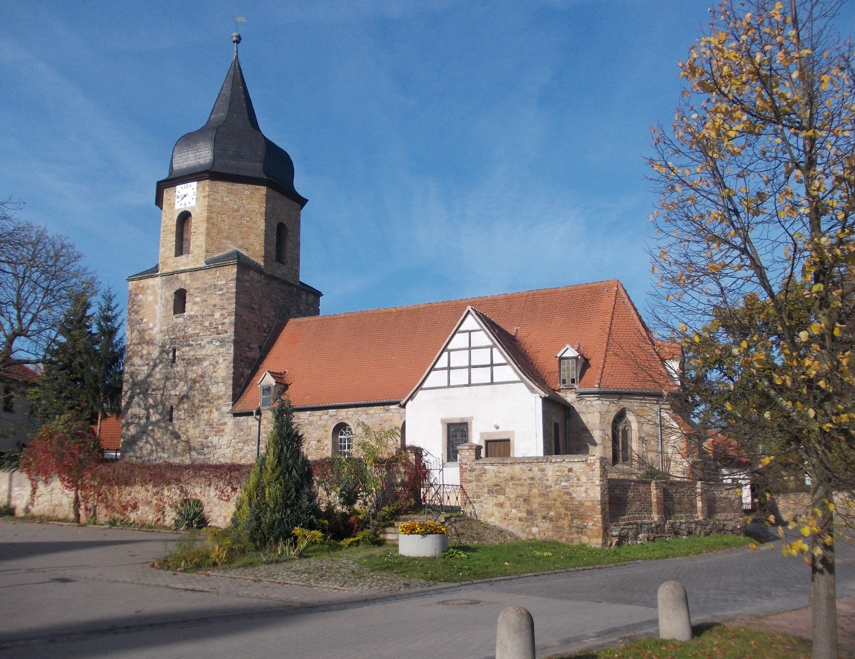 St. Benedict's Church in Schochwitz (Salzatal, district: Saalekreis, Saxony-Anhalt)